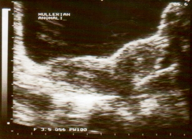 Ultrasound image showing duplication of uterus corpus characterizes this Mullerian Duct Anomaly. Didelphys uterus (Type III) or Complete bicornuate (Type IVa) Ultrasound scan. Provided as-is. Please feel free to categorise, add description, crop or rename.